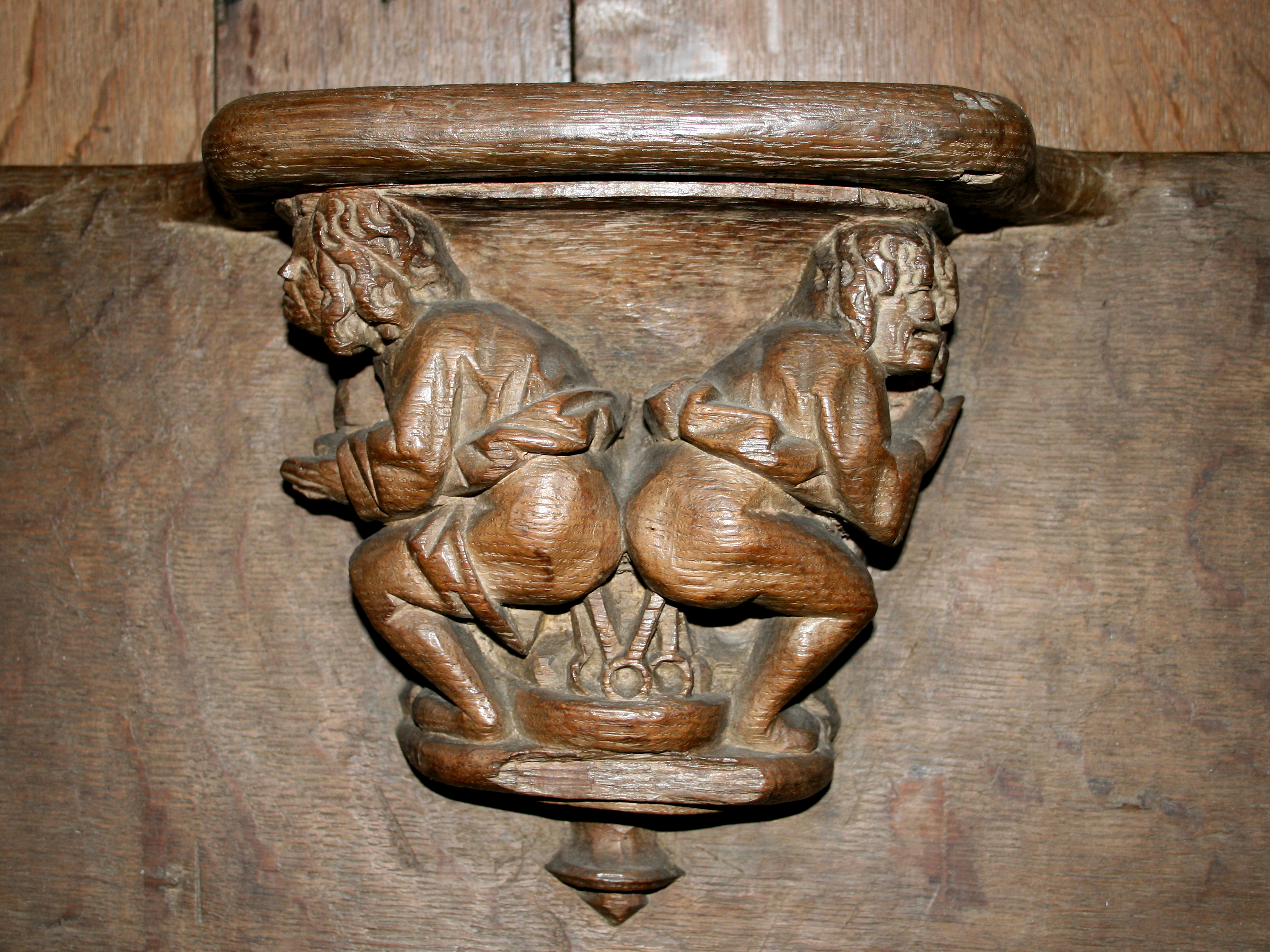 Misericord depicting two people defecating. - Stalls of the Basilica of Saint Materne (XVIh century) - Walcourt (Belgium).